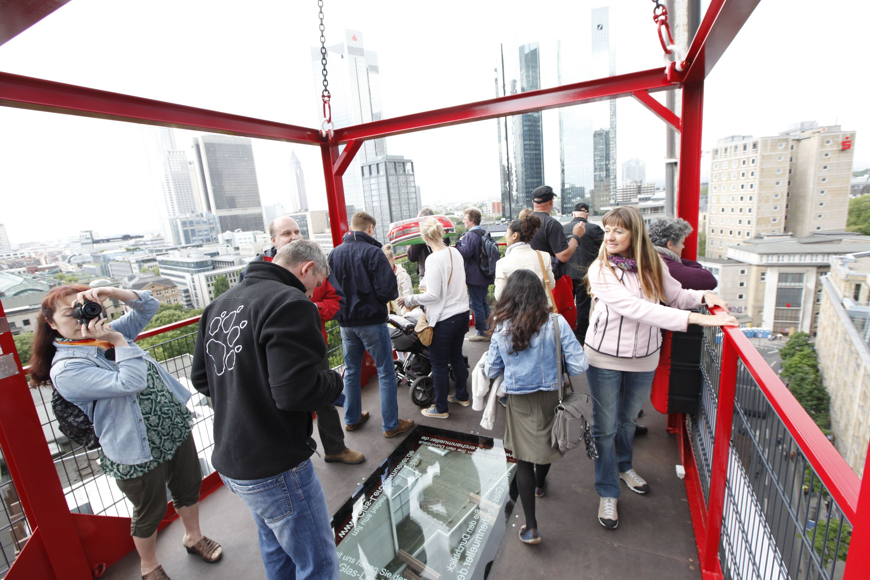 Frankfurt von oben: Auf dem Wolkenkratzer-Festival 2013 können Besucher auf einer der vielen Aussichtsplattformen die Stadt von oben bewundern.